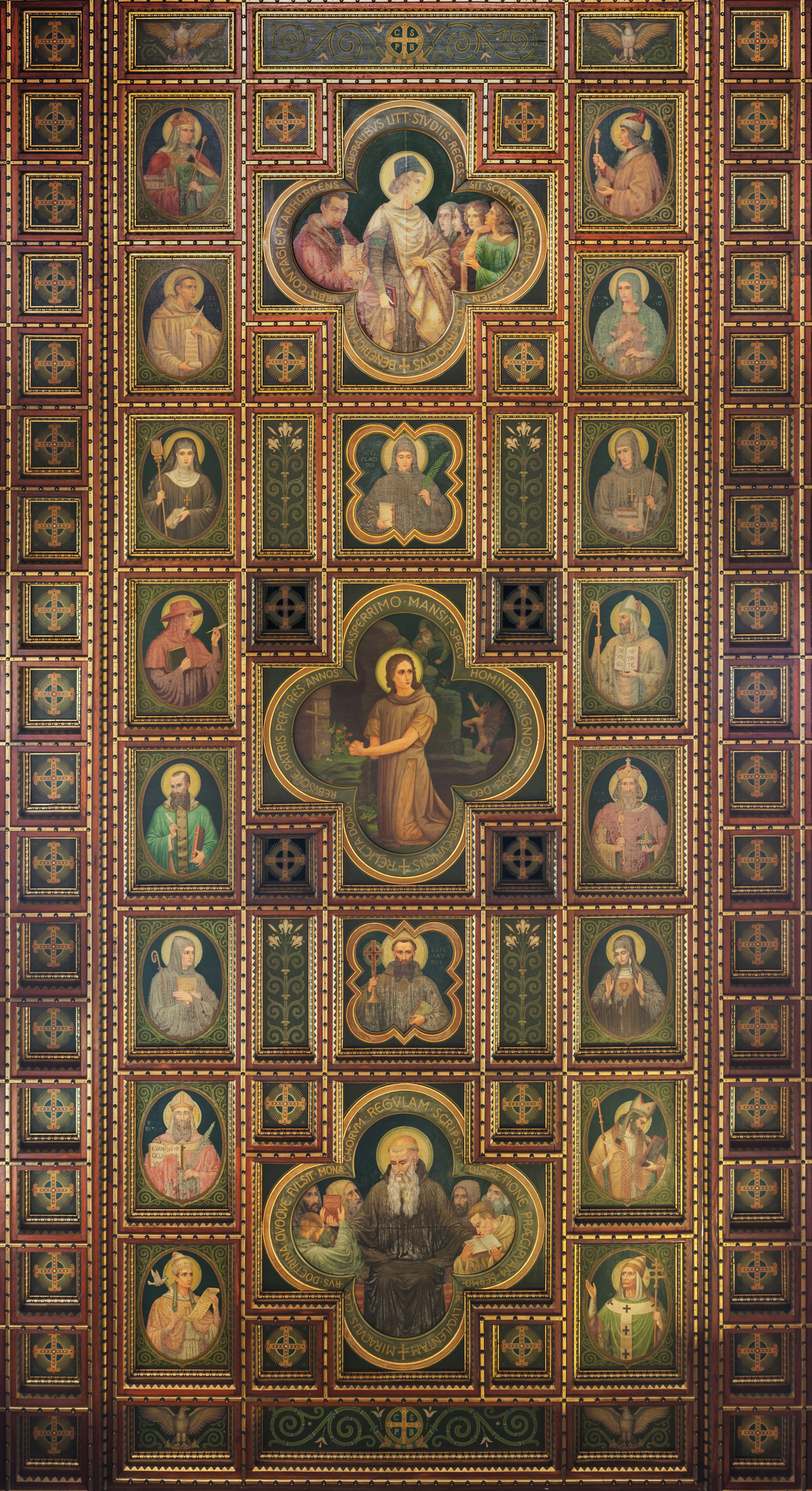 São Bento Monastery roof, São Paulo, Brazil